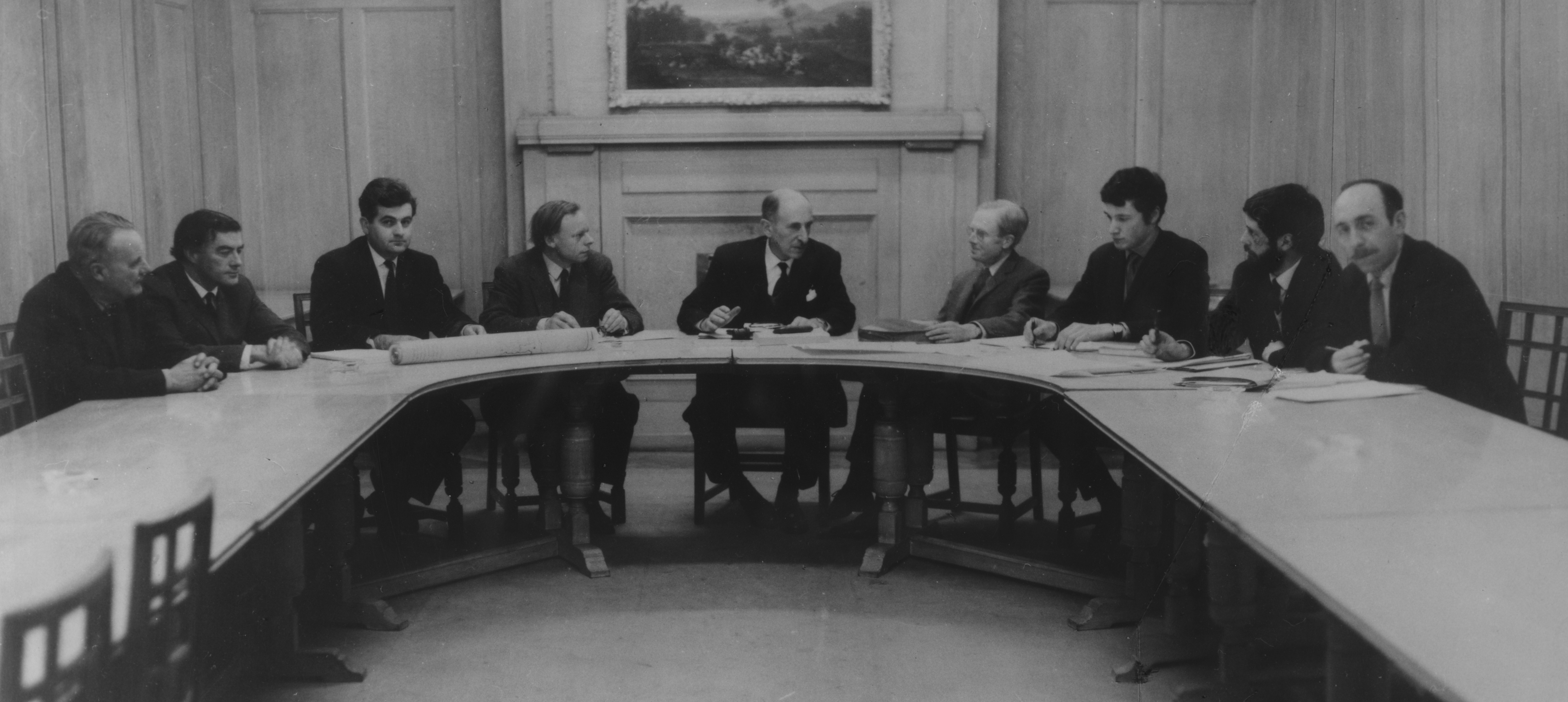 Left to right: Ken Ruck, Michael Thomson, George Jones, Gerald Rhodes, William Robson, Gilbert Ponsonby, Gordon Peters, Ken Young, David Regan IMAGELIBRARY/204 Persistent URL